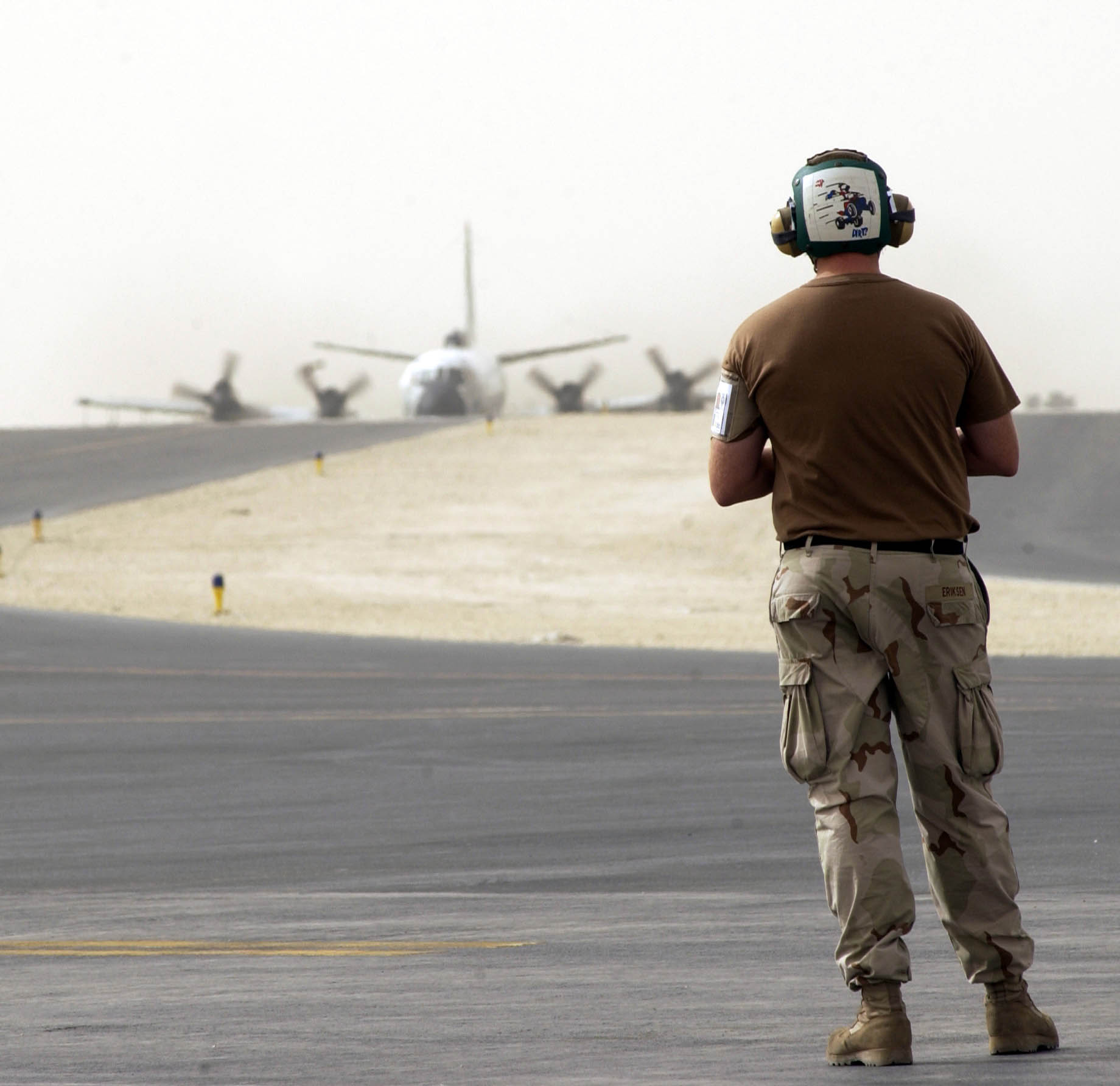 Southwest Asia (Sept. 25, 2005) - U.S. Navy Aviation Structural Mechanic 1st Class Greg Eriksen, assigned to Commander Task Group 57.1, waits for an EP-3E Aries aircraft to taxi after a flight from Bahrain. Commander Task Group 57.1 is currently operating in Southwest Asia. U.S. Air Force photo by Staff Sgt. Rhiannon Willard (RELEASED)